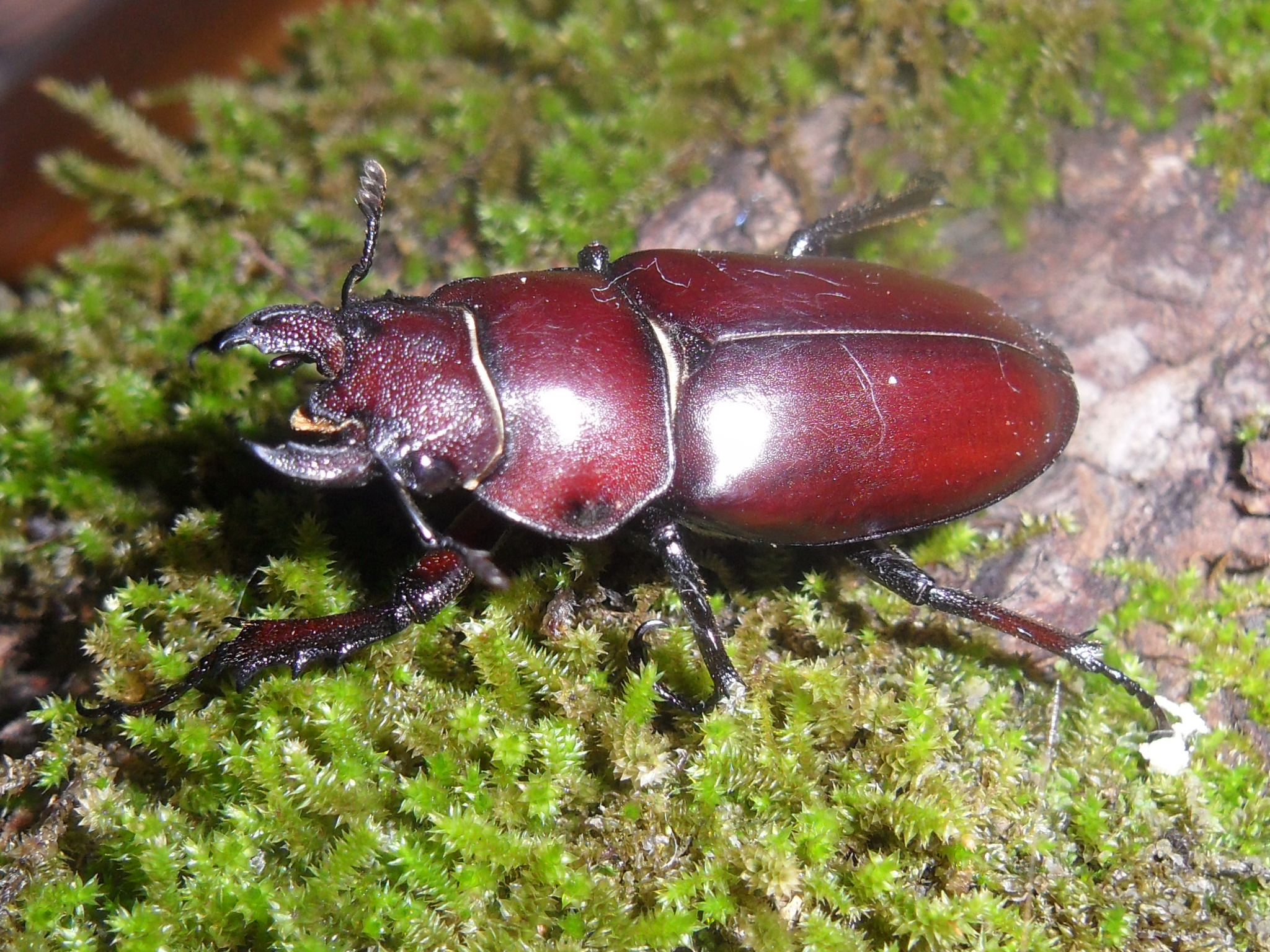 Adult female Lucanus elaphus. 29mm in length.